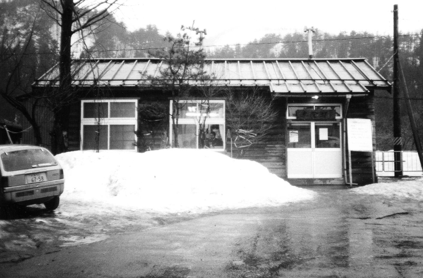 JNR Yonekura station,Akatani Line,Niigata Pref.,Japan